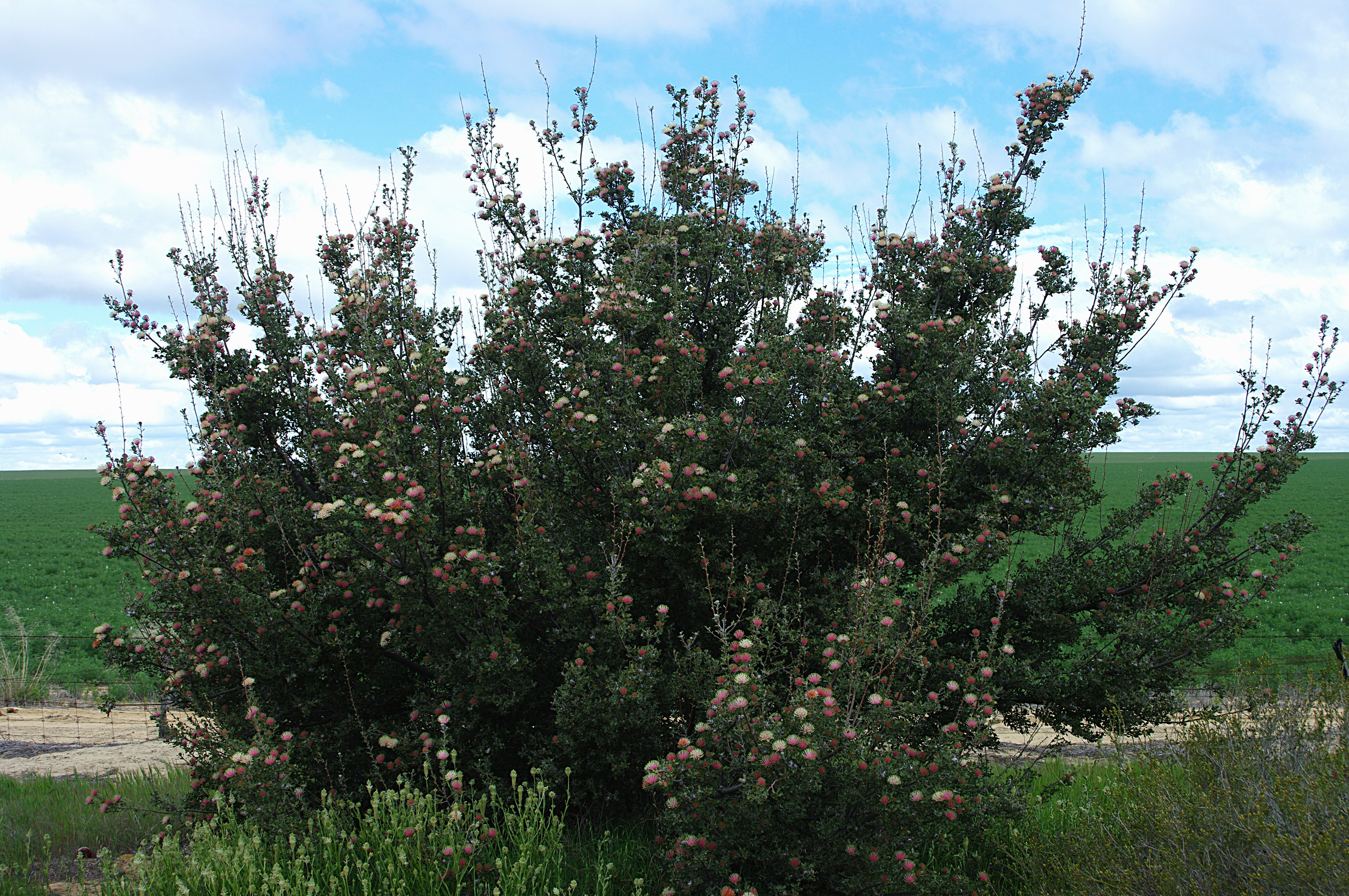 Banksia cunaeta -- Quariading Banksia or Matchstick Banksia full plant appoxiamately 3 meters high